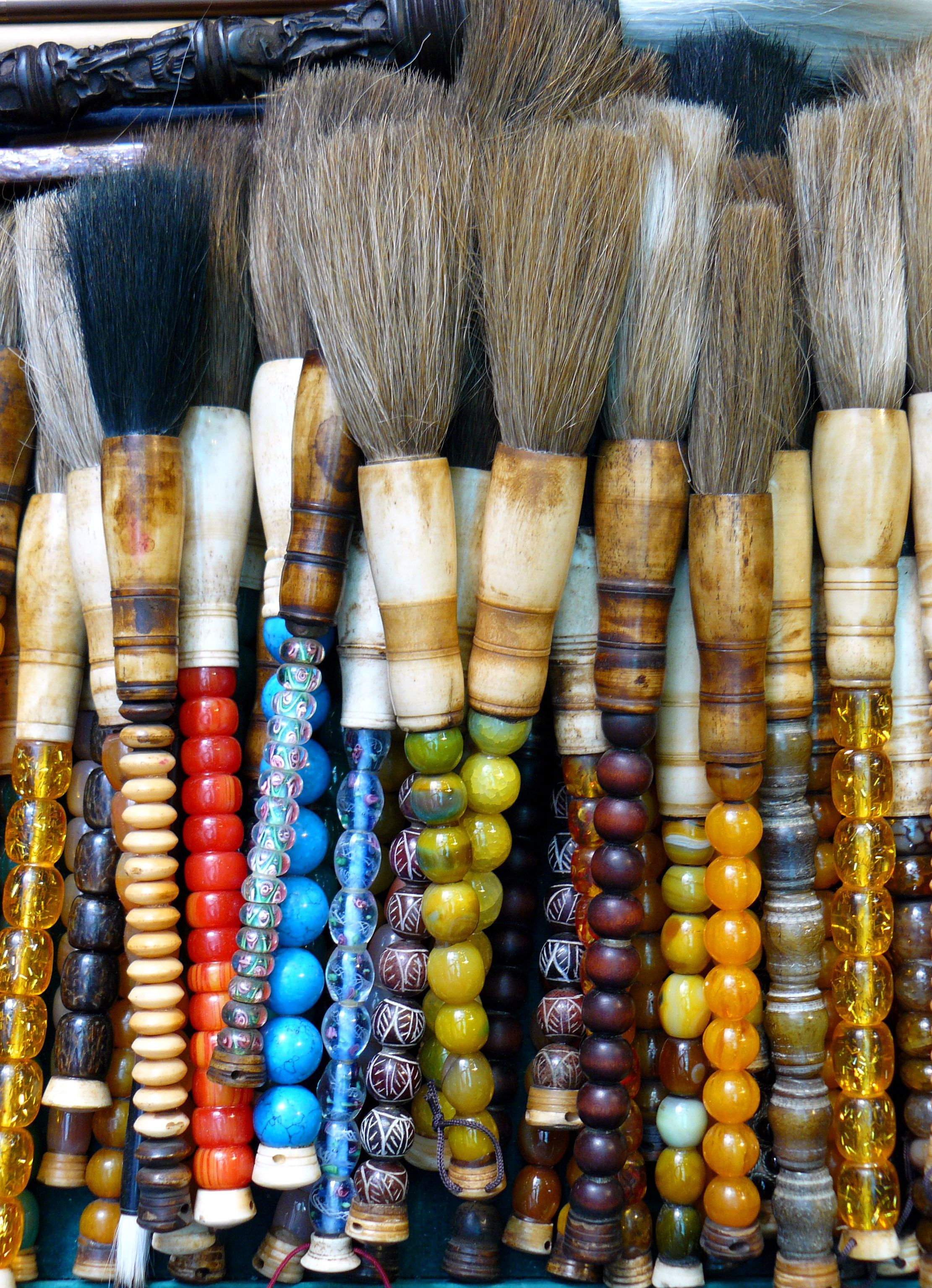 Upper Lascar Row, Hong Kong